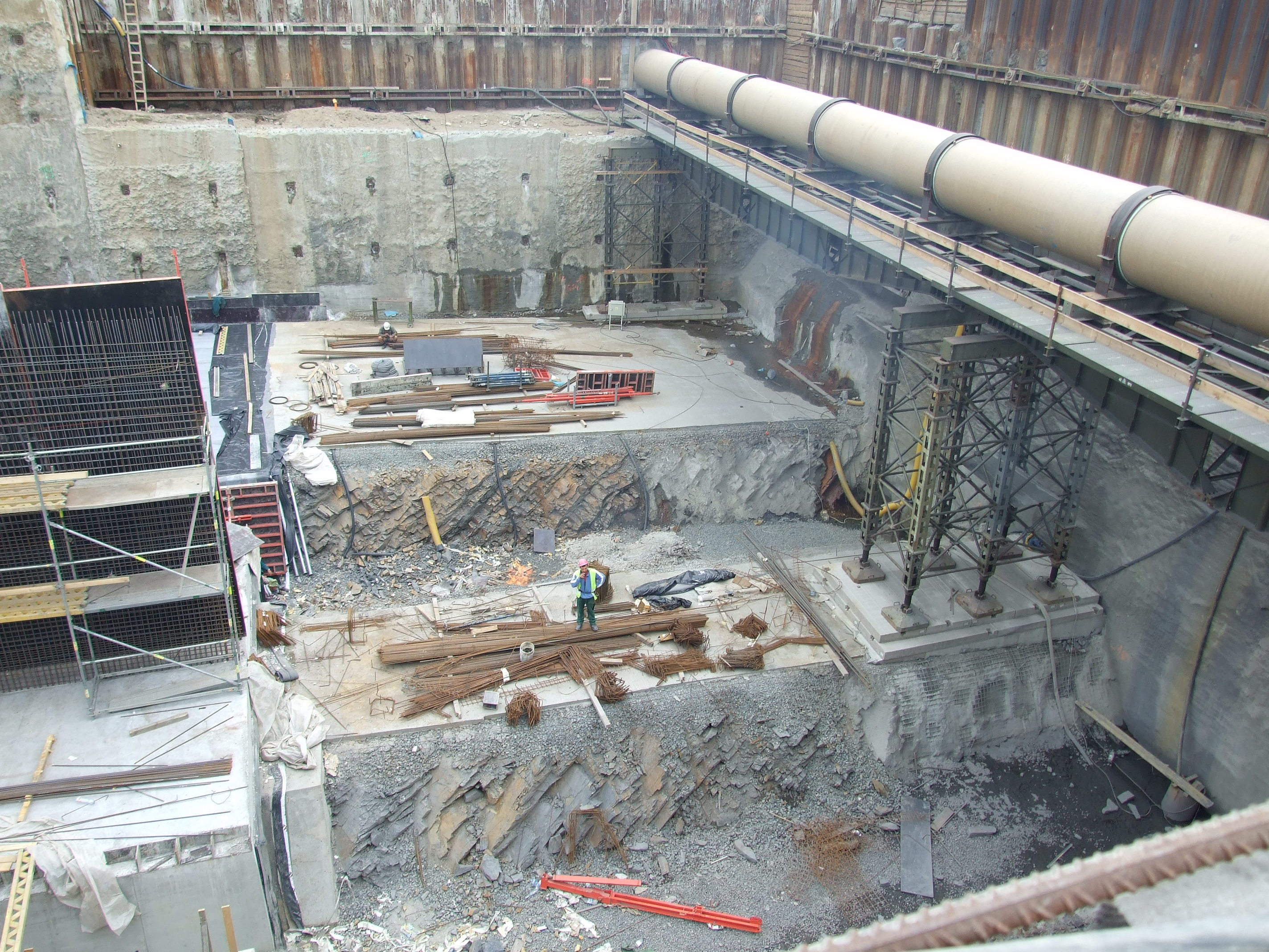 Construction of the northern portal of Blanka tunnel in Prague-Troja